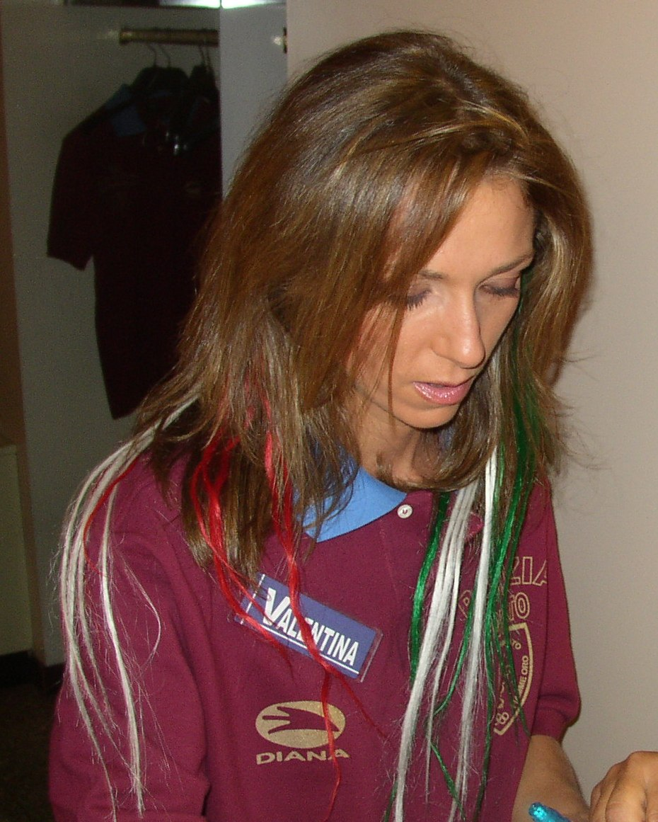 Fencer Valentina Vezzali at Milan in 2004